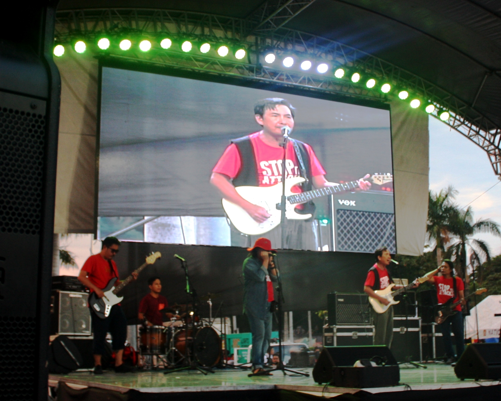 Philippine rock band The Jerks performing at a stage in Luneta Park on September 21, 2018, during a Martial Law protest rally decrying creeping authoritarianism in Philippine society.